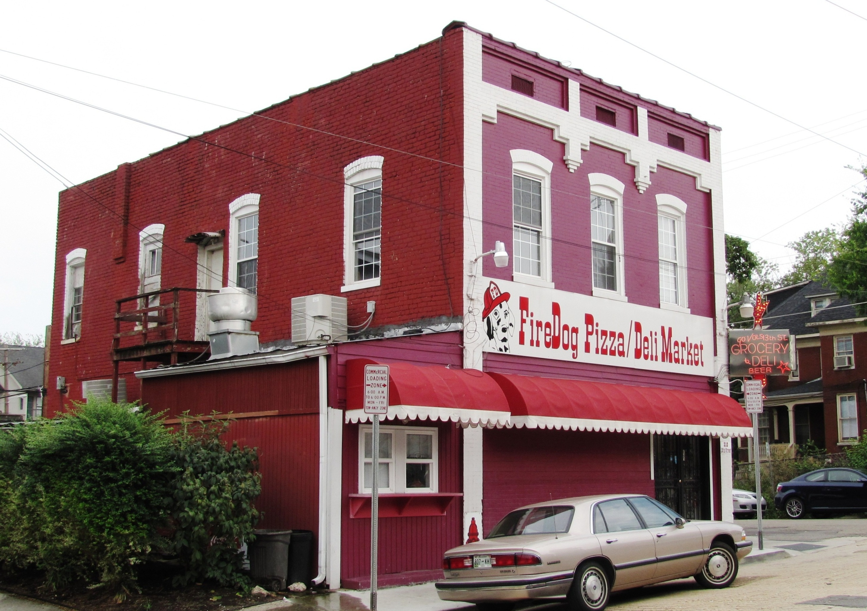 Firedog Pizza and Deli (310 Thirteenth Street) in the Fort Sanders neighborhood of Knoxville, Tennessee, USA. Constructed circa 1910, this building is now a contributing property within the NRHP-listed Fort Sanders Historic District.